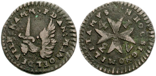 Crusaders, Knights of Malta. Manoel de Vilhena. 1722-1736. Æ Grano (19mm, 2.37 g, 6h). Dated 1734. Maltese cross Winged arm left, holding sword upright. Restelli 139; KM 140. VF, brown patina.